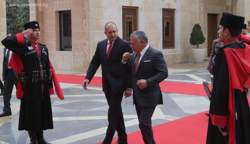 President Rumen Radev and his wife Desislava Radeva were welcomed with an official ceremony at the King’s Palace in Amman by King Abdullah II and Queen Rania Al- Abdullah